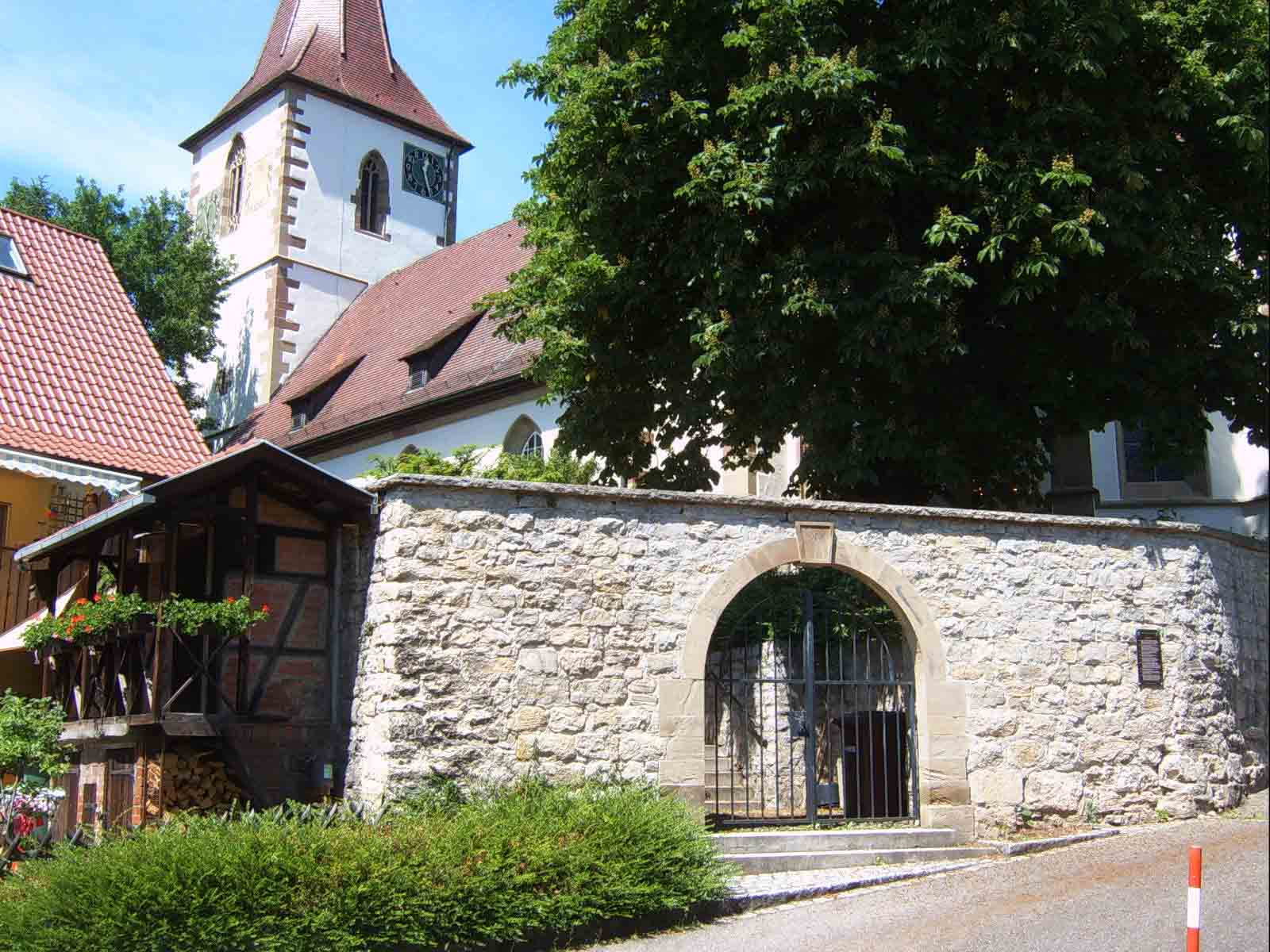 Aldingen (Church-Castle); District of Ludwigsburg; Federal State of Baden-Württemberg; Germany